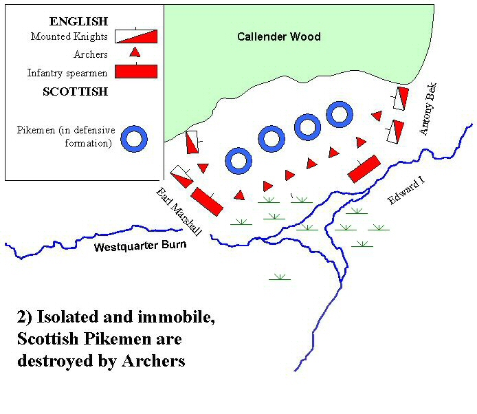 Battle of Falkirk phase 2: Derived from information in "Braveheart: History of Myth, by Paul V Walsh: Slingshot 196